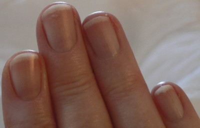 Nails.